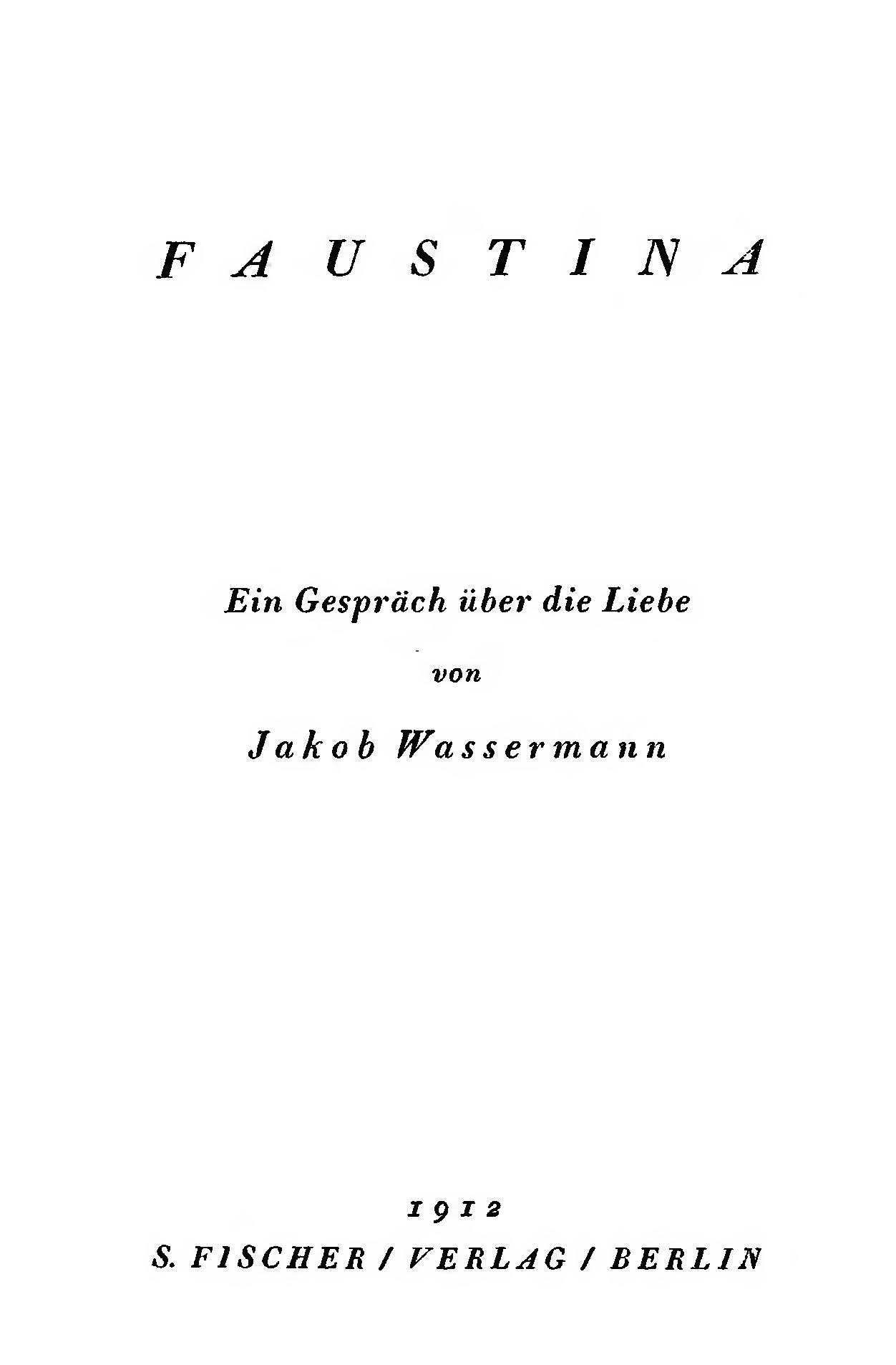 Faustina Cover